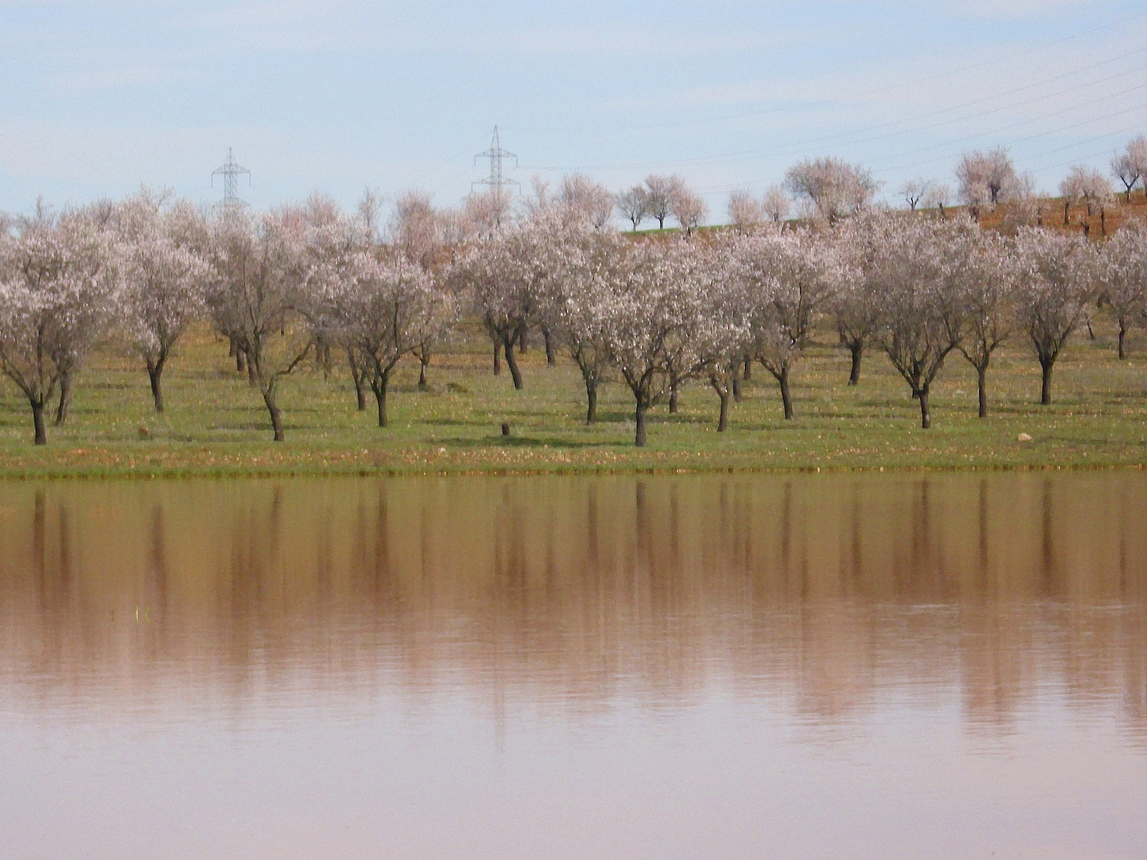 Prunus dulcis flowering, Campo de Calatrava, Spain